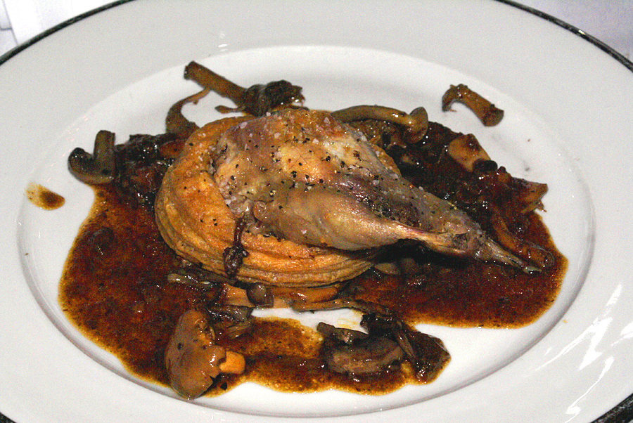 Caille en Sarcophage (Quail in Puff Pastry Shell with Foie Gras and Truffle Sauce. Part of the Menu from the film Babette's Feast, based upon the story by Karen Blixen (Isak Dinesen). The menu in the film is created by Danish masterchef Jan Pedersen, from restaurant Everdamskroen who has also created the menu on the photo based on the same recipe.)